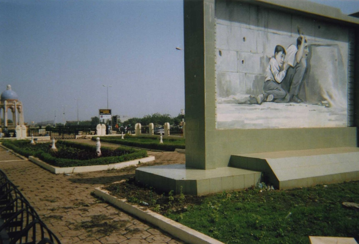 Avenue Al Qoods in central Bamako. The painting in the foreground portraits a famous photo of the Muhammad al-Durrah incident.